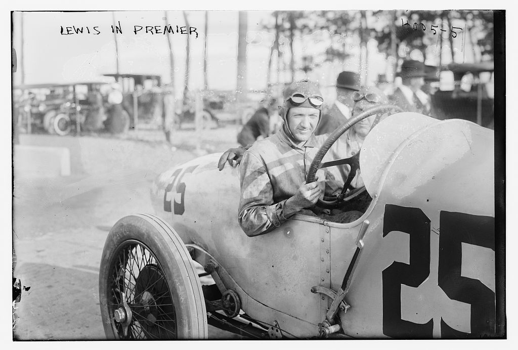 Dave Lewis (racing driver) in 1916 at the Astor Cup in Sheepheads Bay